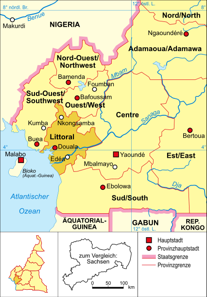 Cameroon map political